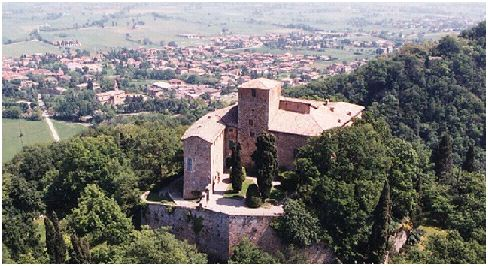 Esternal visual of Bianello's Castle